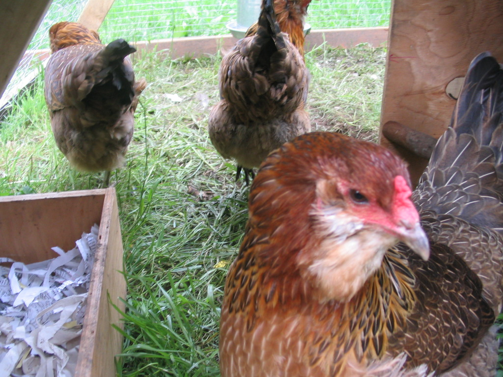 A trio of Ameraucana hens housed in this coop. Located in a Portland, Oregon backyard. On the left is their nest box for egg laying.